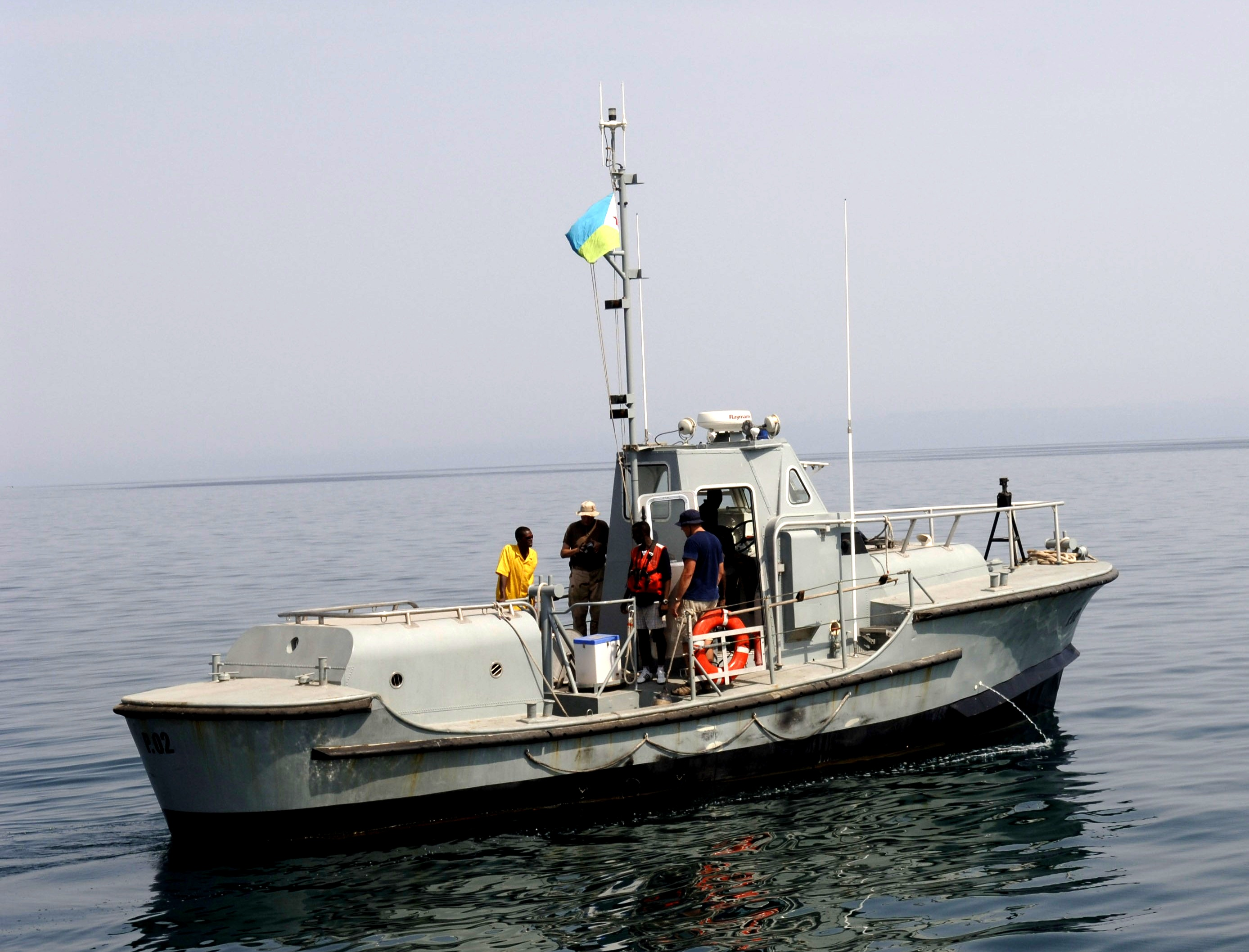 DJIBOUTI CITY, Djibouti (September 13, 2006) -- A Djiboutian patrol boat, donated by the U.S. government, moves through the Tadjoura Gulf. A U.S. Coast Guard team from the International Training Division, Yorktown, Virginia, trained members of the Djiboutian Navy on boat towing procedures. (U.S. Air Force Photo by Technical Sgt. Sean M. Worrell)